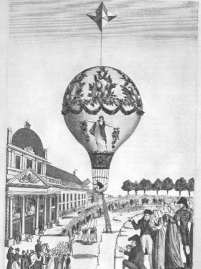 Sophie Blanchard, French Balloonist making an ascent from the Champ du mars, Paris